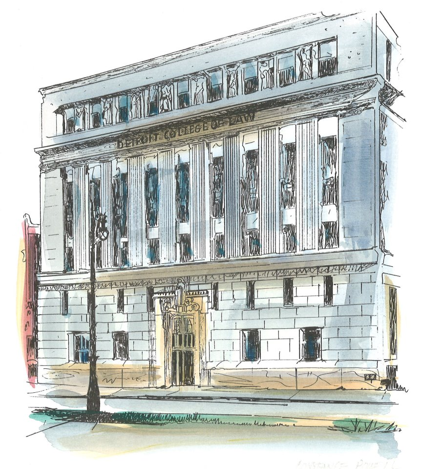 This etching of the original Detroit College of Law was commissioned to commemorate the history of MSU Law.